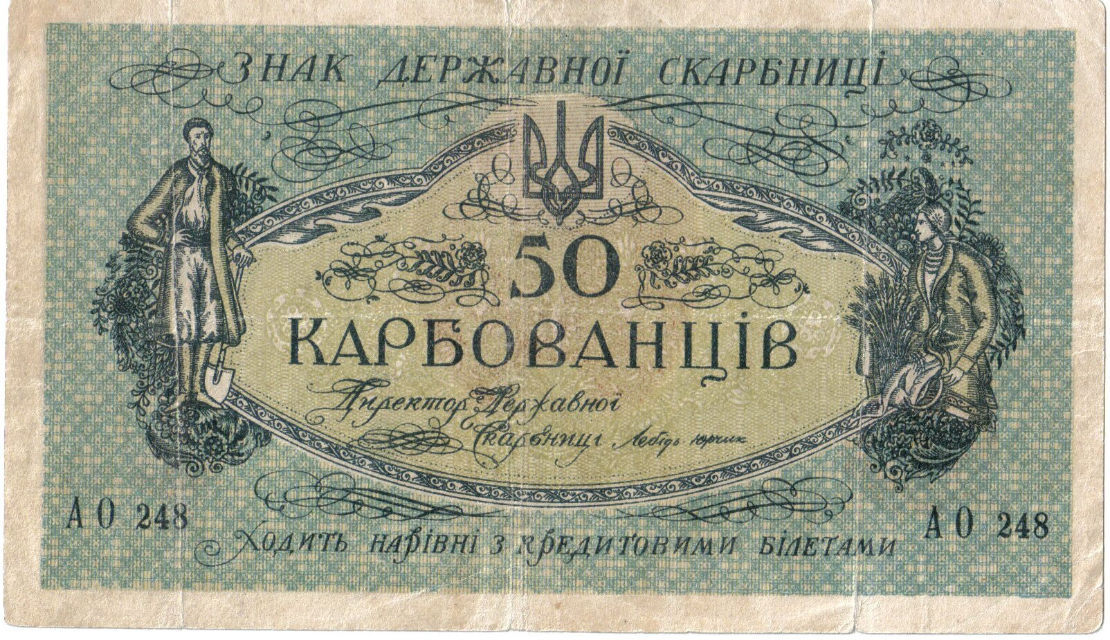 The Banknote of The State Treasury. The period of circulation since April, 1918 till may, 1919. Size: from 73,5x130 mm, till 77x133 mm witout water-marks. By the picture of A. Krasovskyy. Made in printing-house of Konlyenko in Kyiv - till march 26, 1919 and in Odesa - till may, 1919.